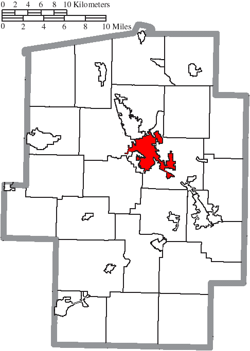 Map of the municipal and township boundaries of Tuscarawas County, Ohio, United States, as of the 2000 census, with the location of the city of New Philadelphia highlighted. Township borders are shown only in unincorporated areas in order to differentiate incorporated and unincorporated areas more clearly.